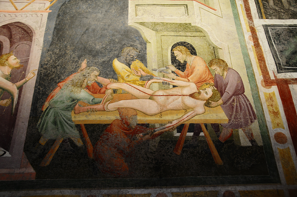 martyrdom of san Bartolomeo - fresco. Domenicani church, Bolzano - Bozen